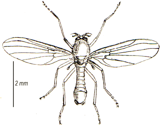 Adult of Thaumalea testacea